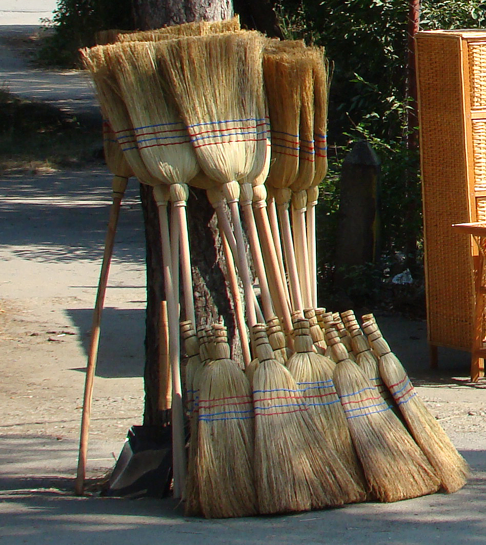 Brooms for street sale